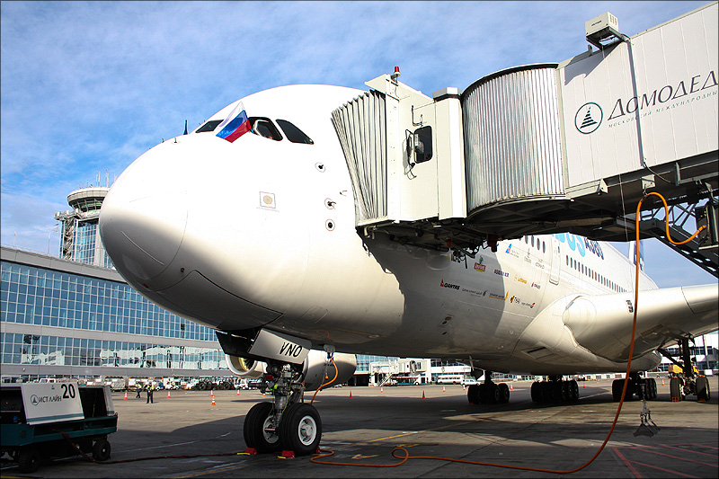 Airbus A380 in Domodedovo International Airport, October 17 2009.